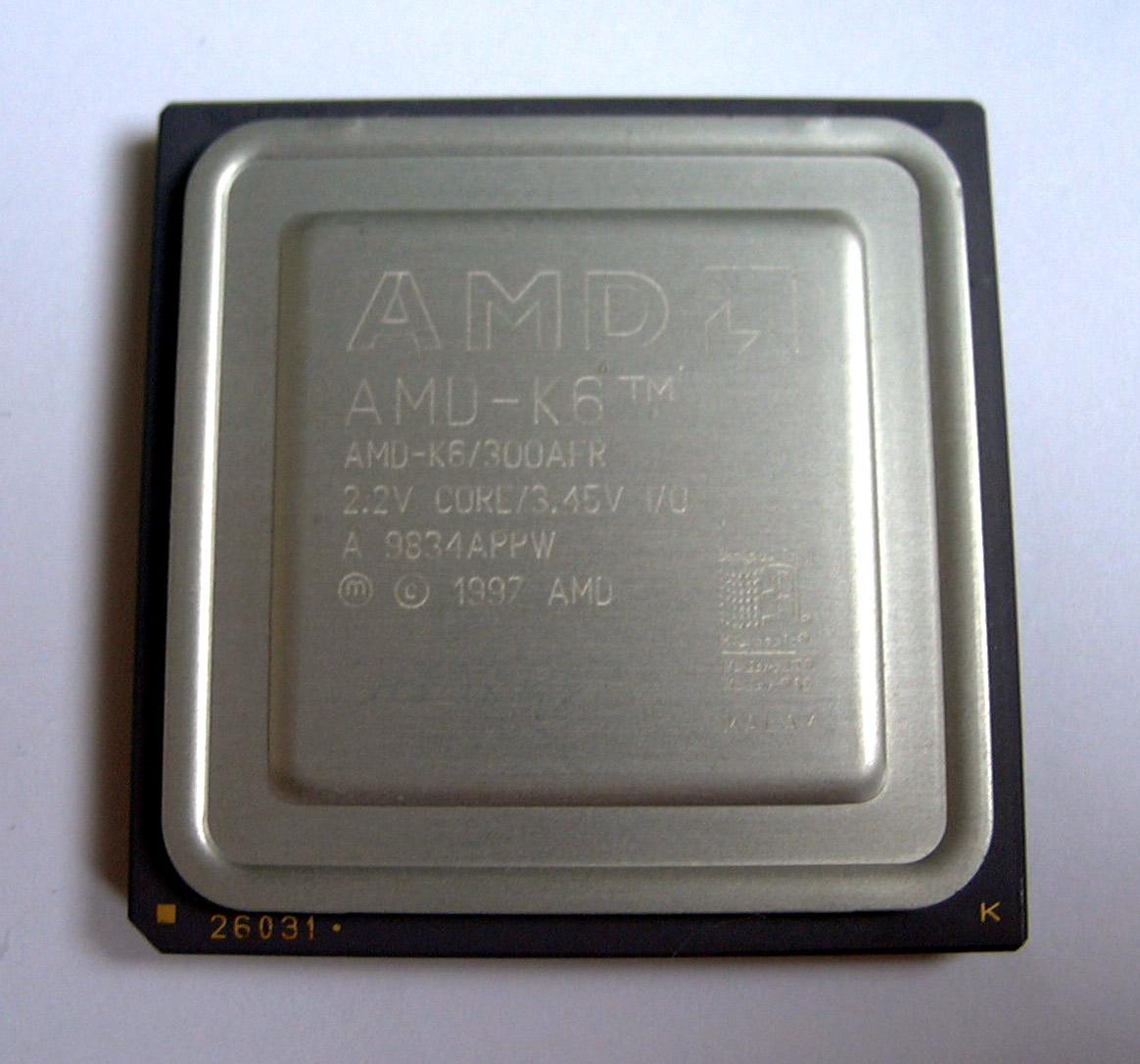 An AMD K6 300 MHz processor.